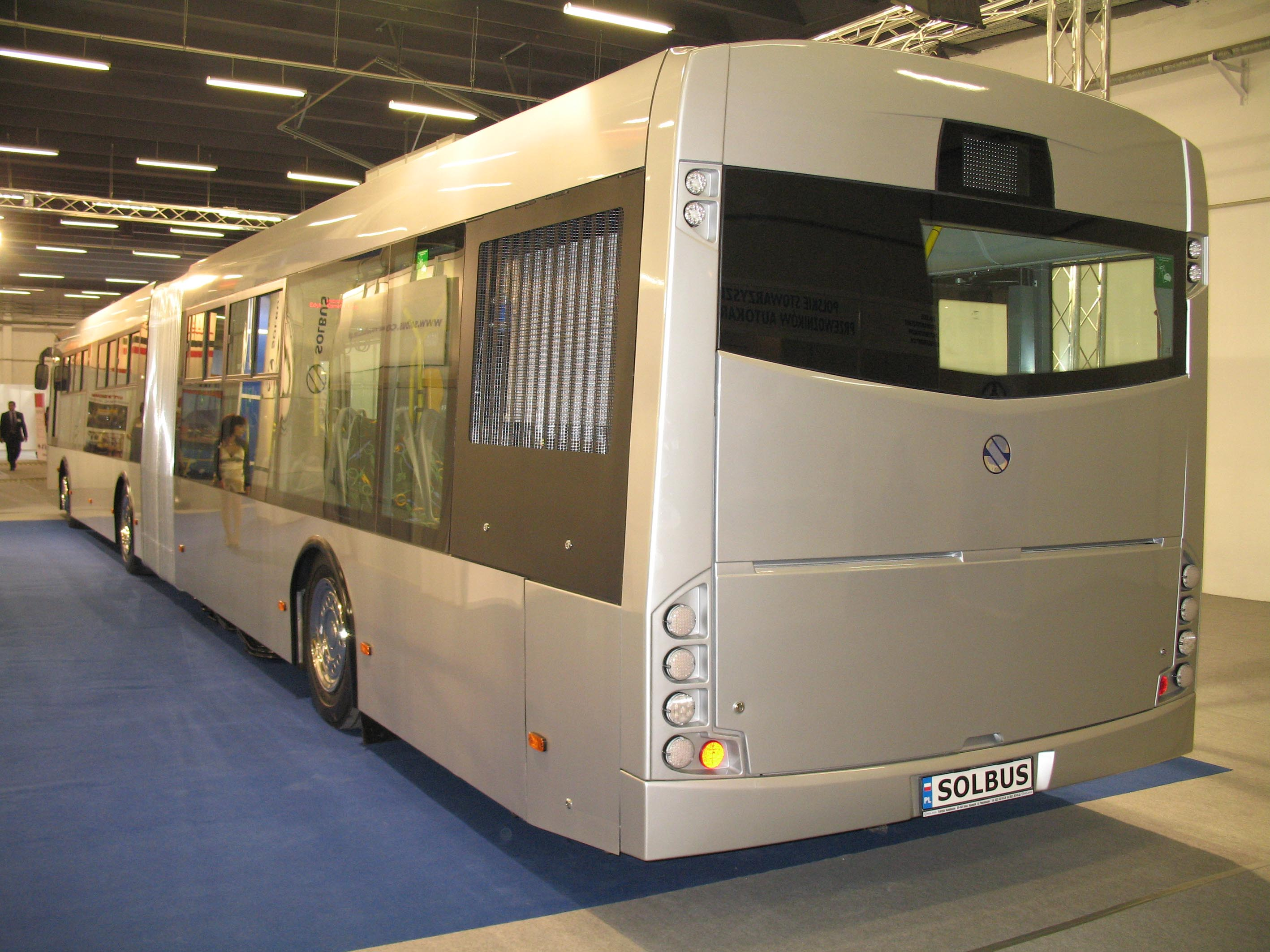 Solbus Solcity 18 articulated city bus (SM series) in Kielce, Poland. Built 2009. Transexpo 2009.